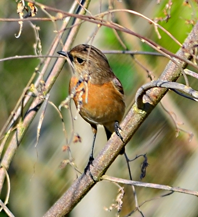 Siberian Stonechat, female, Punjab, India